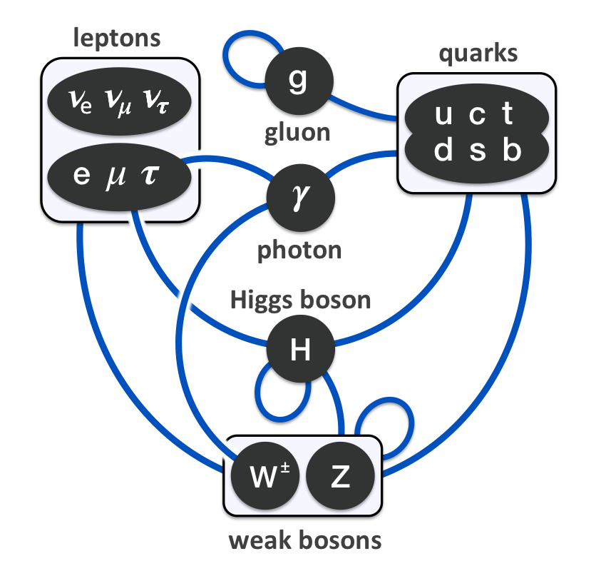 A diagram summarizing interactions between elementary particles according to the Standard Model. Vertices (dark ovals) represent types of particles, and edges (blue arcs) represent interactions between them. Multiple generations of types of particle (leptons, quarks) share an oval. An arc that links to a box is equivalent to a set of arcs that link to every oval in the box; this clarifies patterns and avoids clutter. The top row (leptons and quarks) are the matter particles; a second tier of vertices (photon, W/Z, gluons) are the force-mediating particles; and the Higgs boson is placed at the bottom.